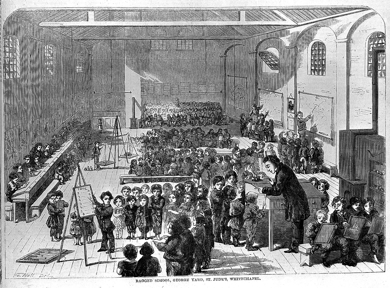 Ragged School, George Yard, St. Jude's, Whitechapel. Wellcome Images Keywords: Poverty